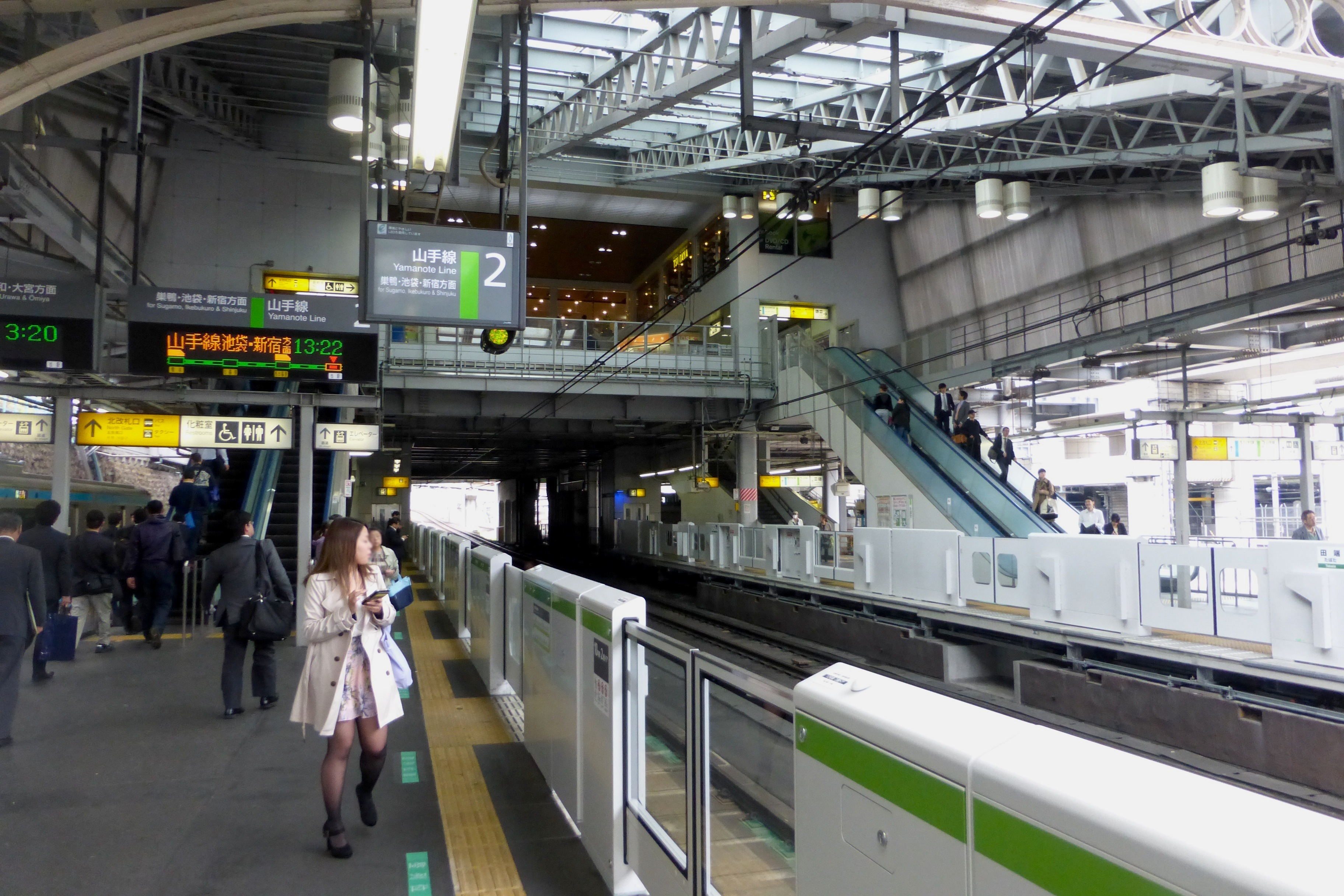 The platforms at Tabata Station in Tokyo